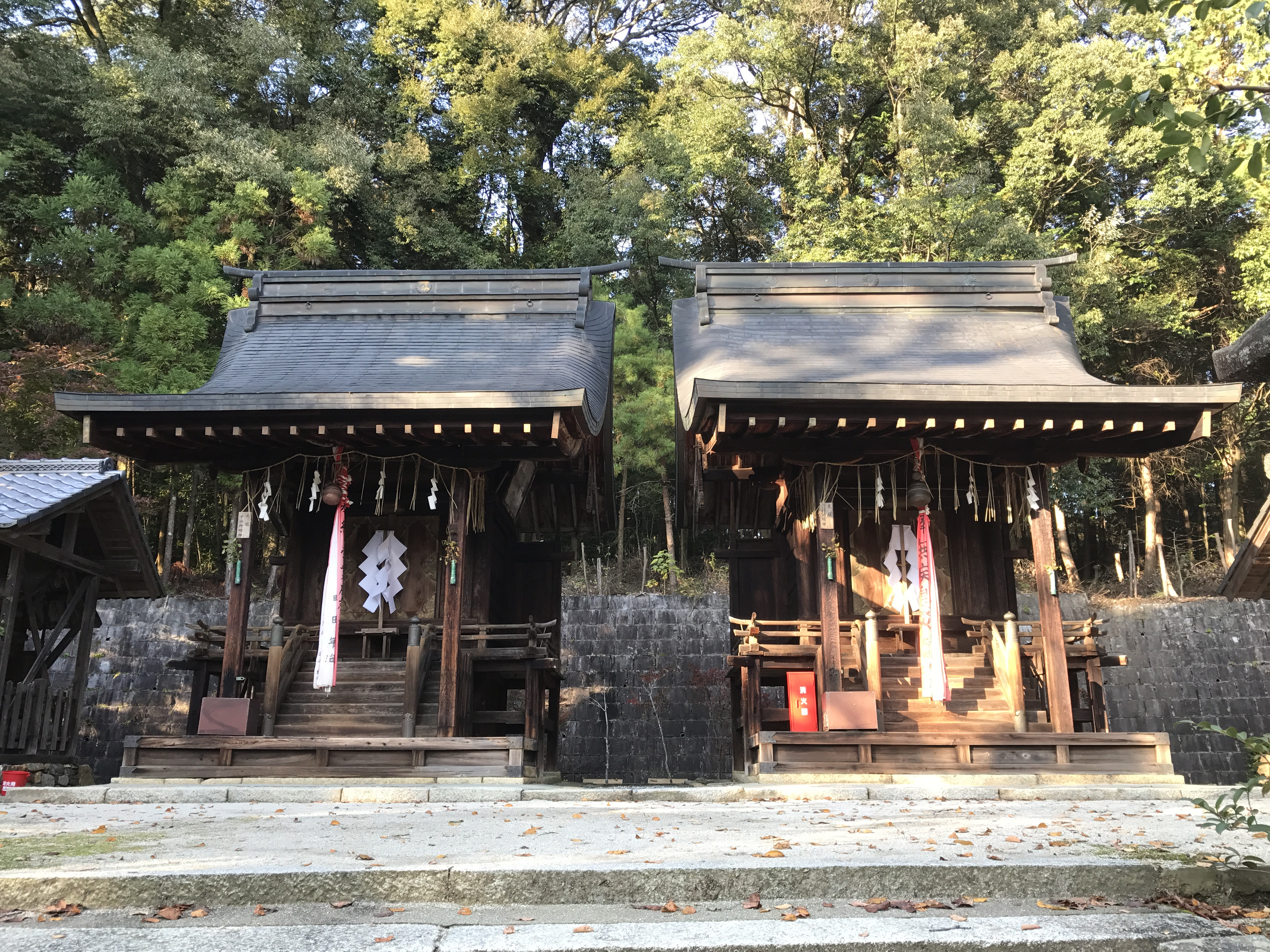 Junisho-Myojin-Shrine (left)・Hassho-Myojin-Shrine (right)